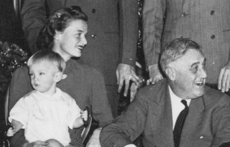 Franklin Delano Roosevelt III with his mother, Ethel du Pont Roosevelt, and grandfather President Franklin D. Roosevelt, at the White House Christmas celebration in 1941.